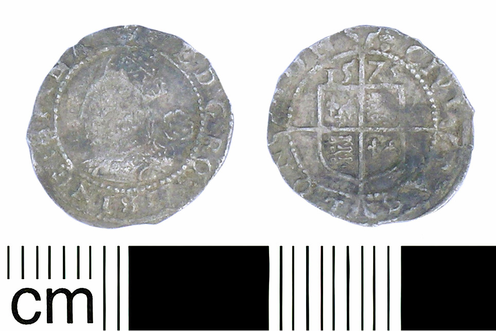 Slightly worn silver Three Halfpence of Elizabeth I; dated 1573 (third issue). Measures 15.8mm in diameter, and 0.3mm thick. No weight recorded.